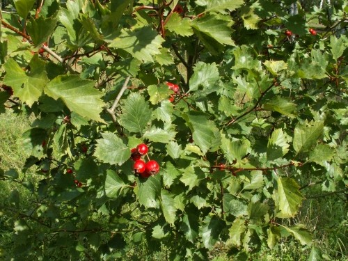 Fan Leaf Hawthorn